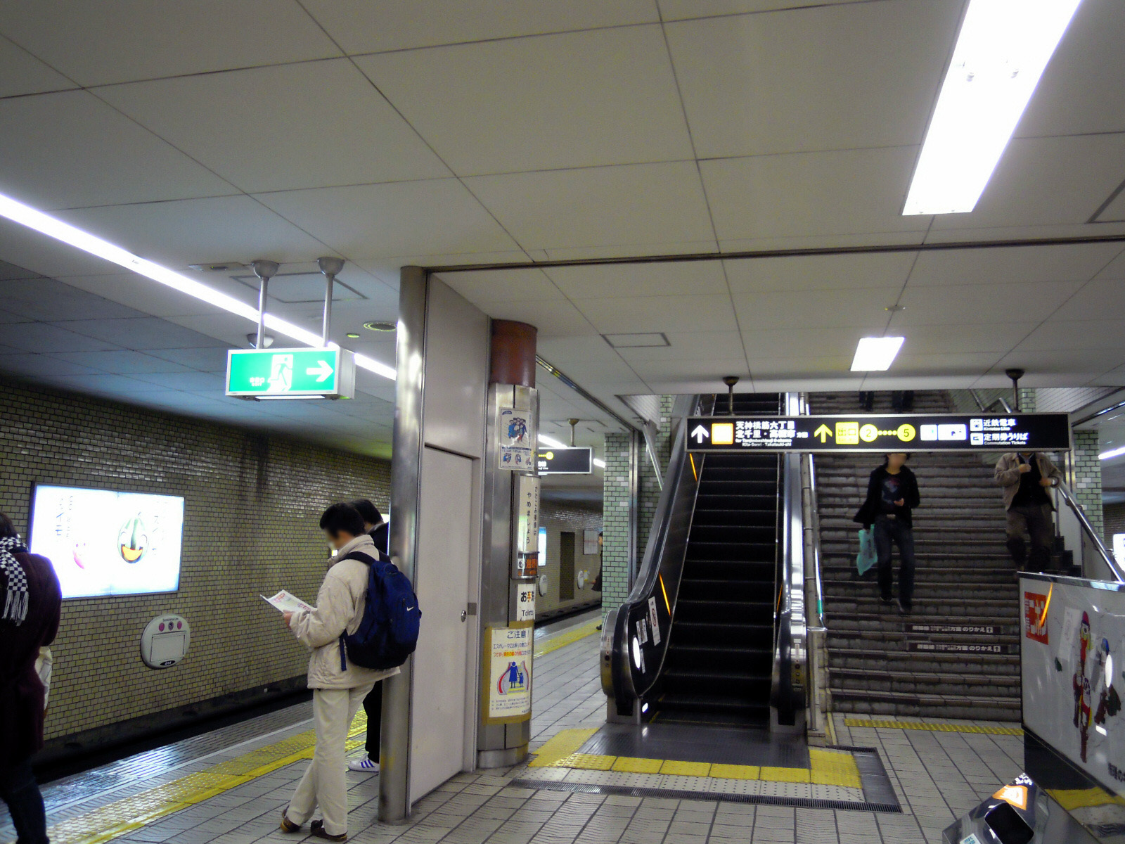 Sennichimae Line Nipponbashi station platform